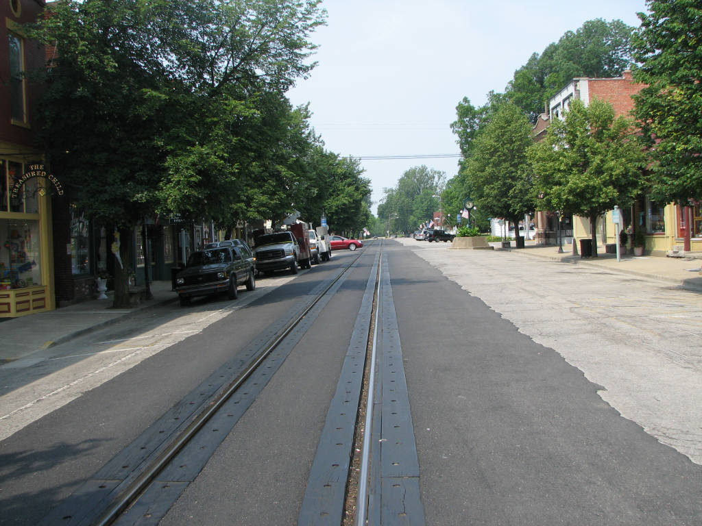 Photo of downtown,La Grange,KY